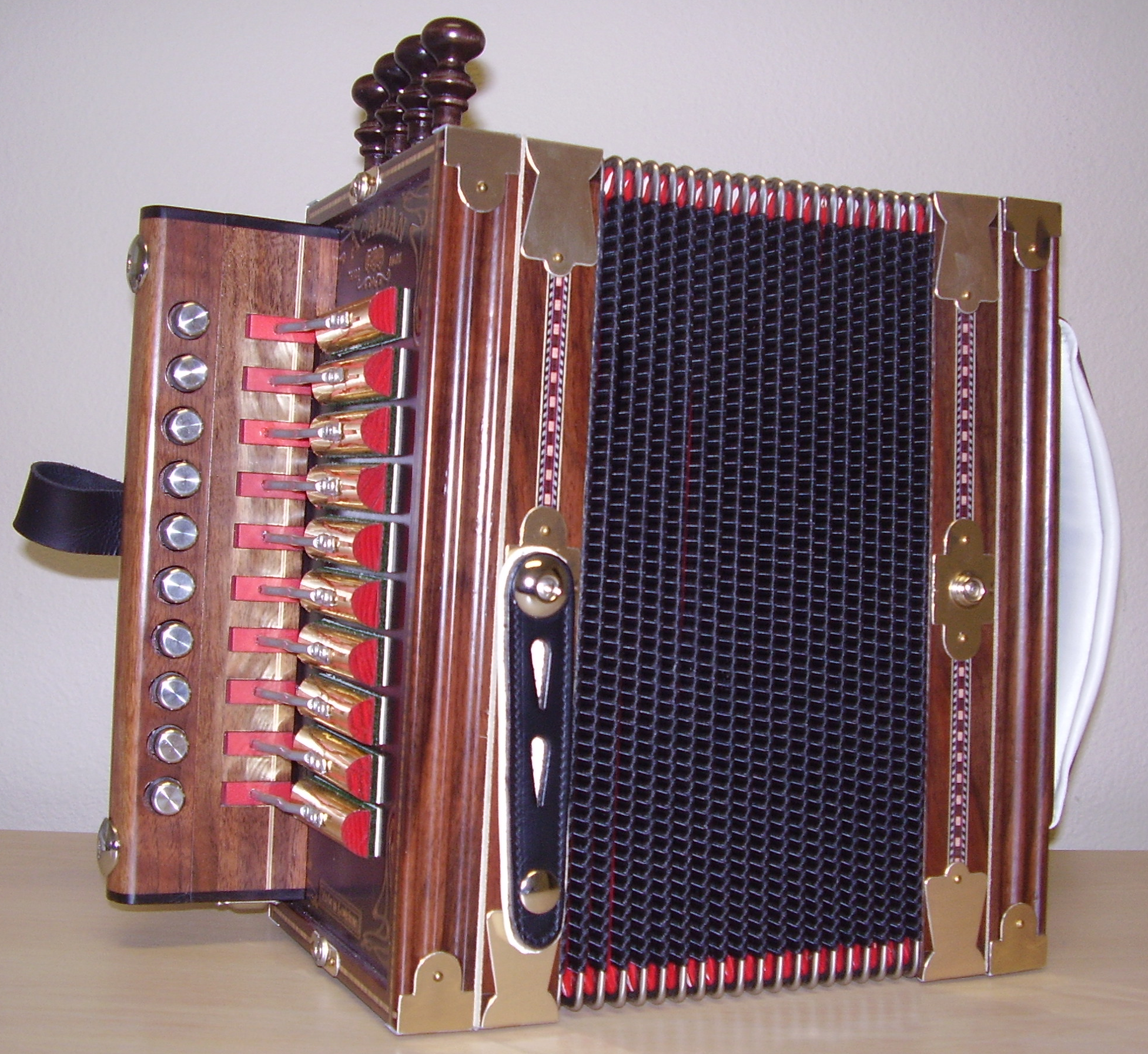 A Marc Savoy Cajun Accordion built in Eunice, Louisiana.